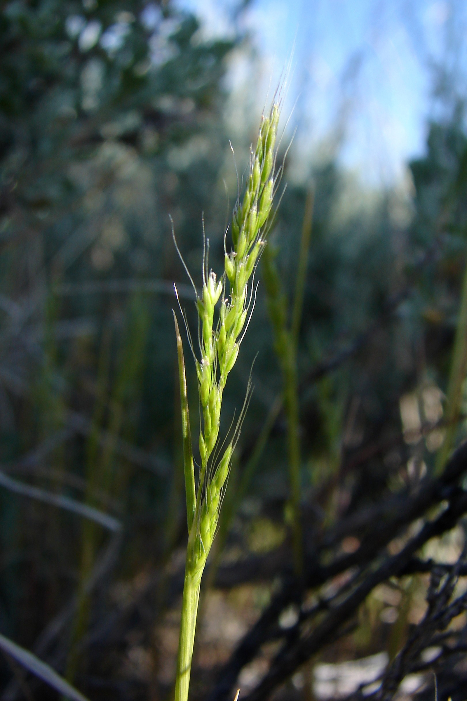 Apera interrupta (L.) P. Beauv. - dense silkybent